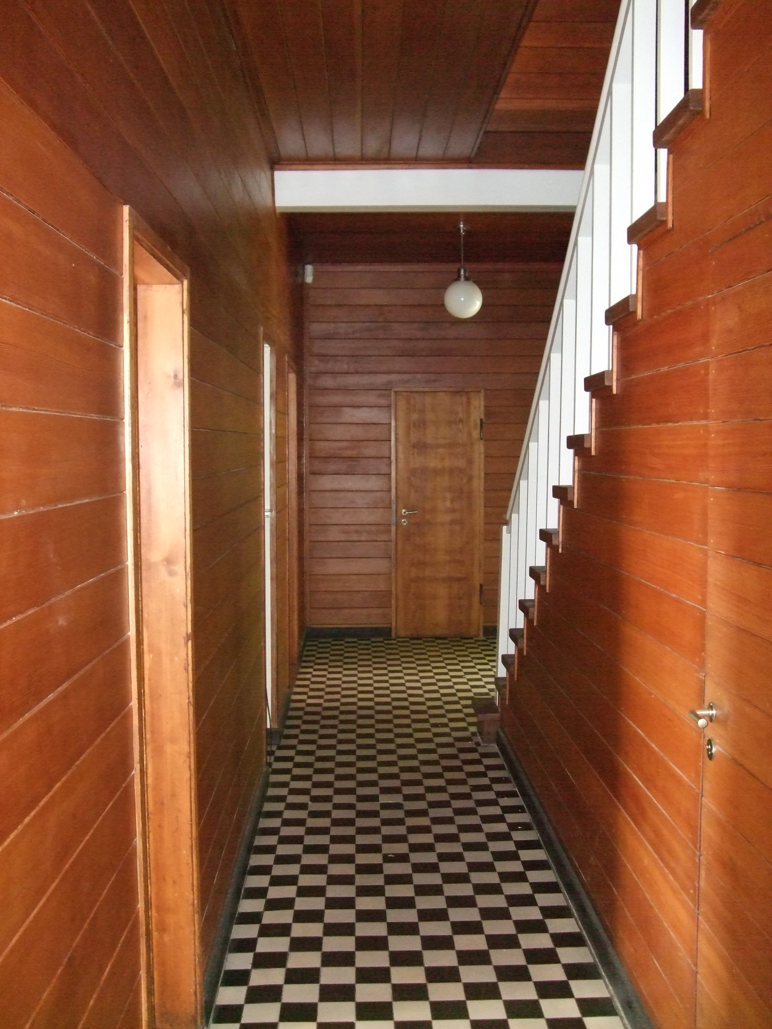 inside Albert Einstein's summer house in Caputh near Potsdam, first floor